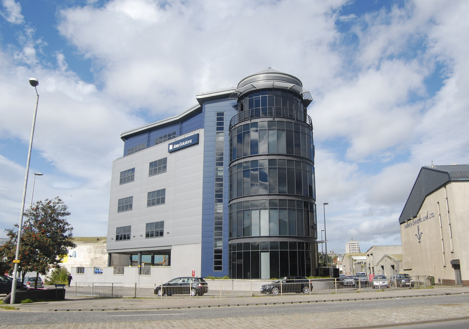 One of the many modern office complexes of the oil companies based in Aberdeen.